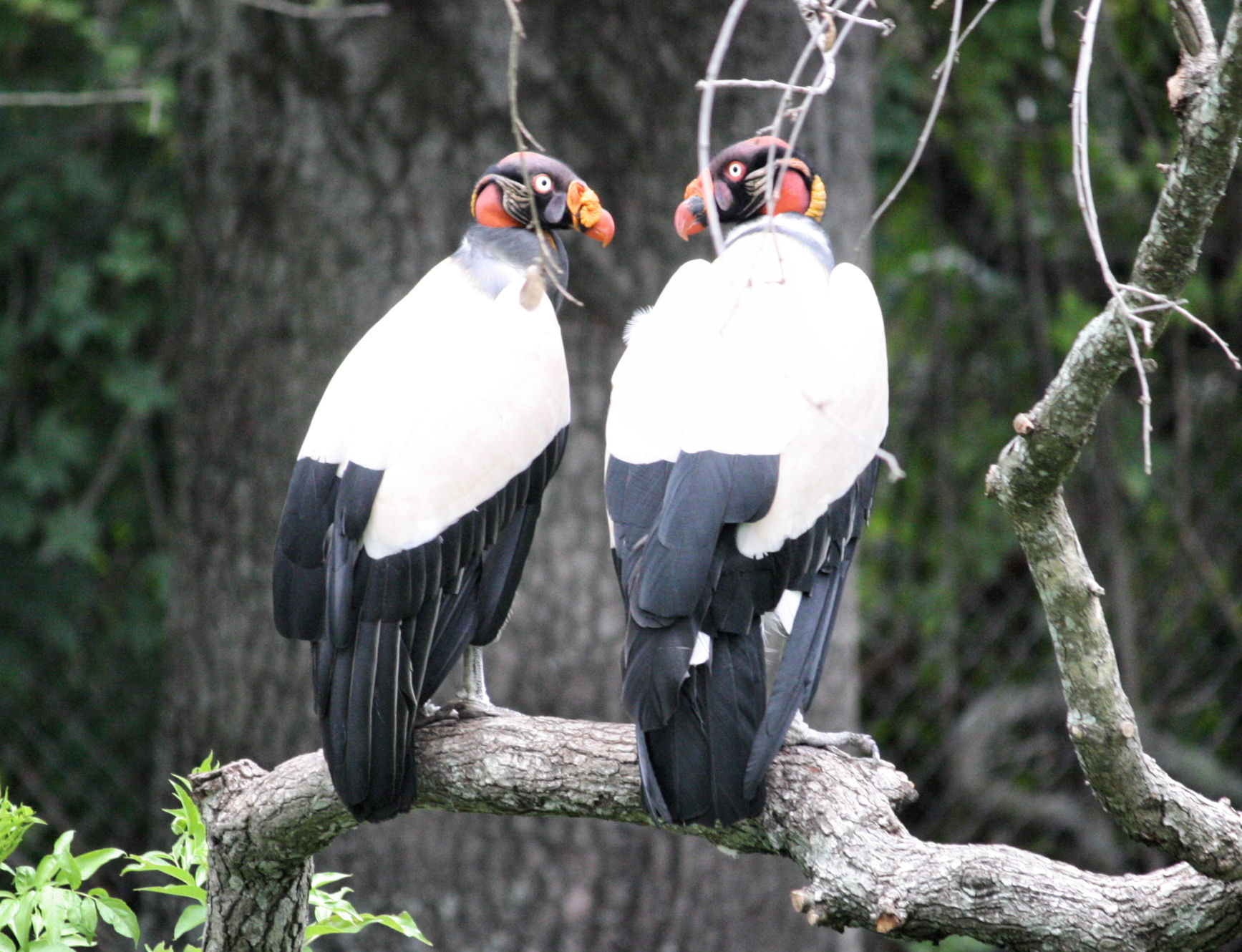 Two King Vultures at Audubon Zoo, New Orleans, Louisiana, USA.